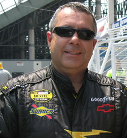 Kevin Lepage posing with a fan at the 2008 NASCAR Nationwide Series event at Mexico City